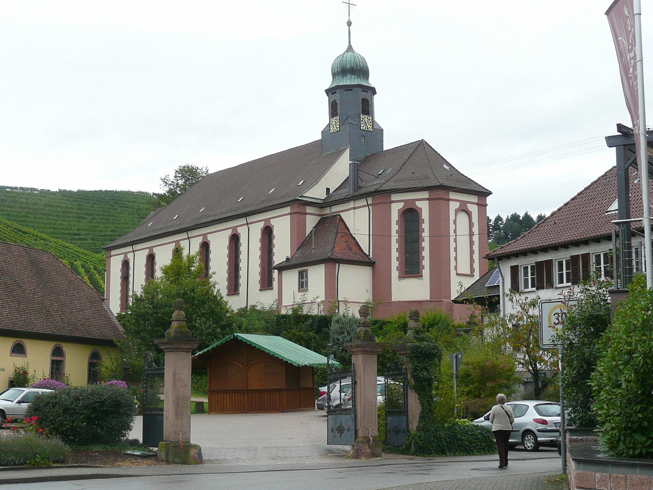 Church of Durbach, Baden.